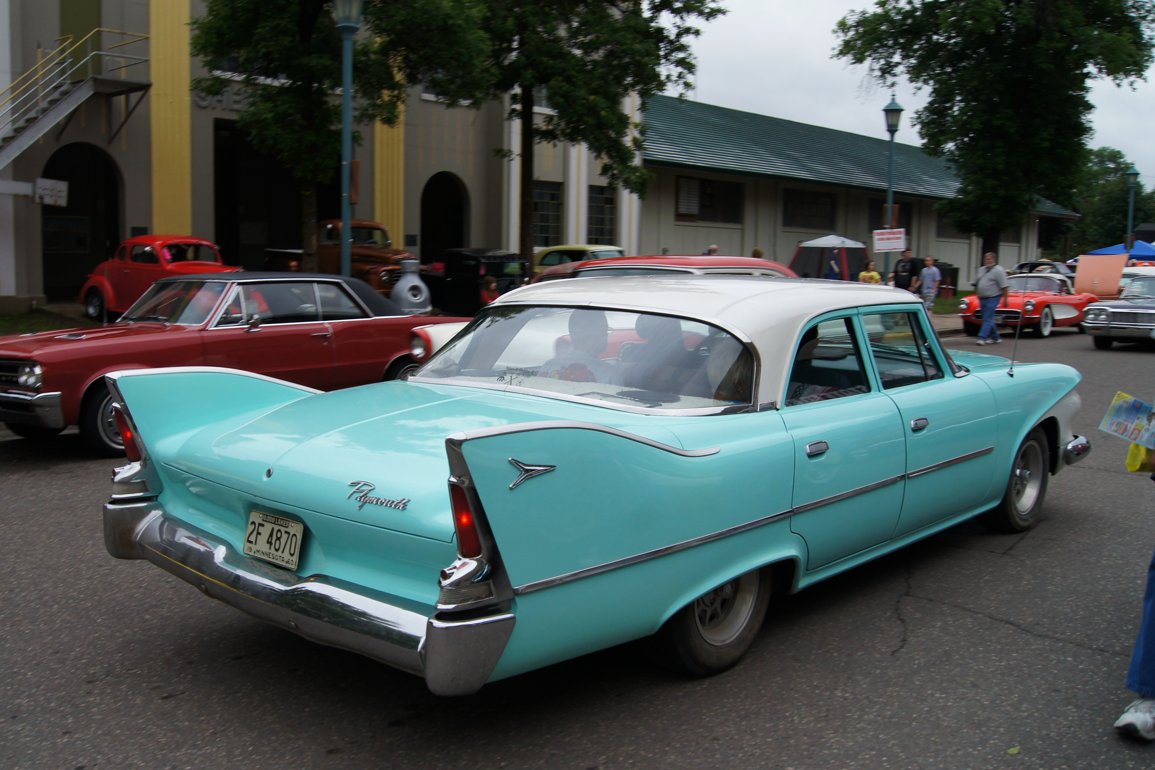 MSRA “BACK TO THE 50′s” 40th ANNIVERSARY June 21-23, 2013 State Fairgrounds St. Paul Minnesota More Car Pictures